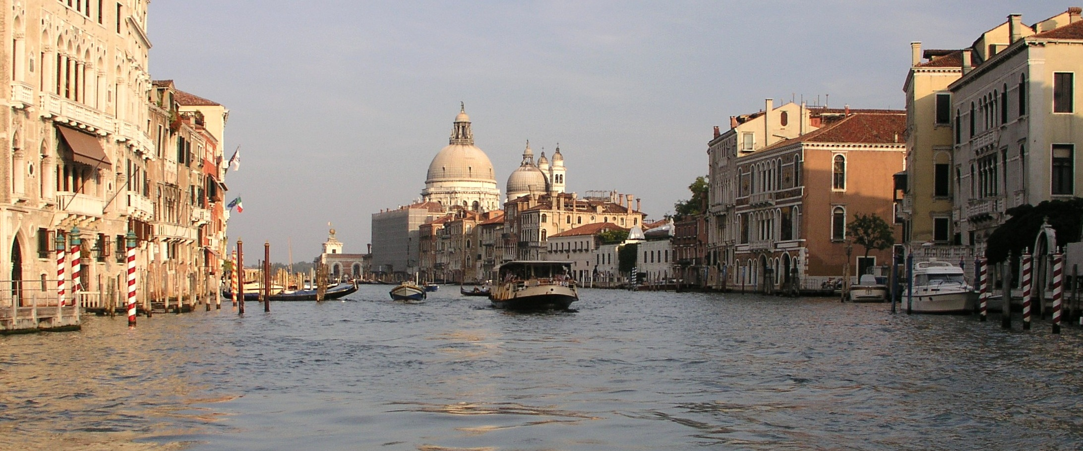 Grand Canal, southern part, Venice, Italy